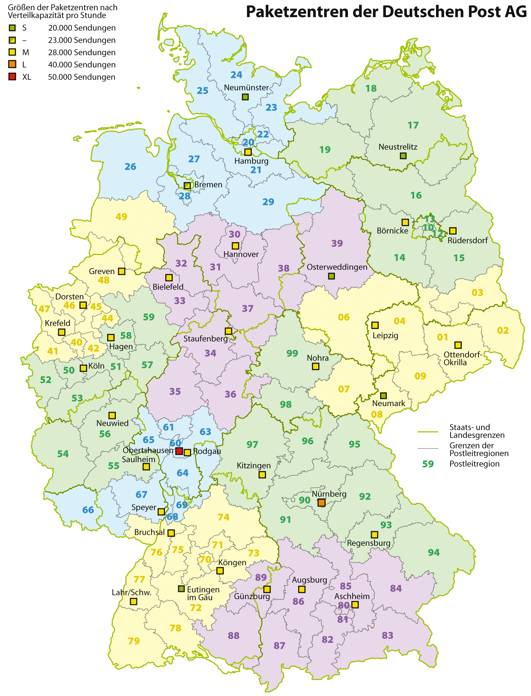 Map of the package delivery centres of Deutsche Post